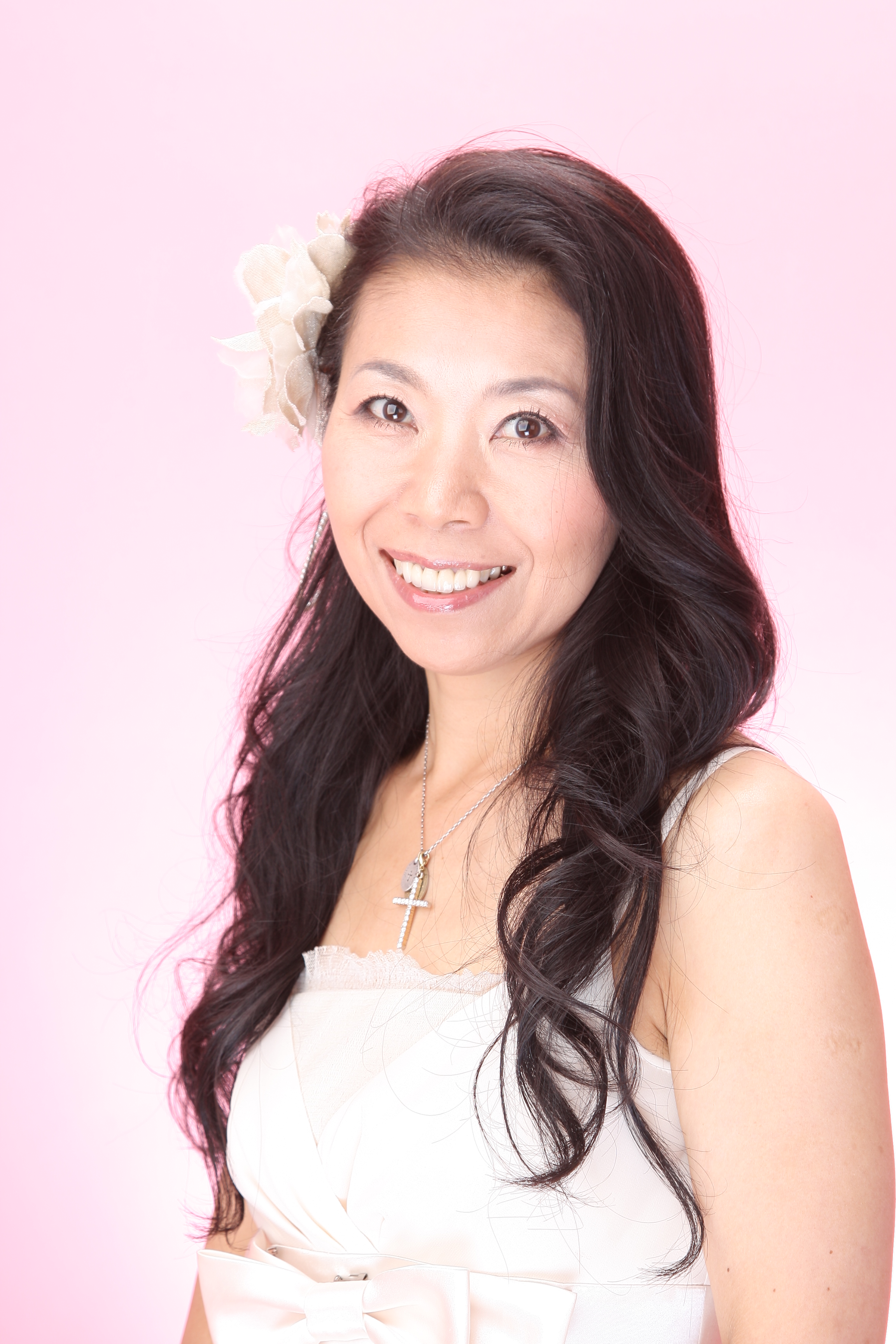 yuko sagisaka